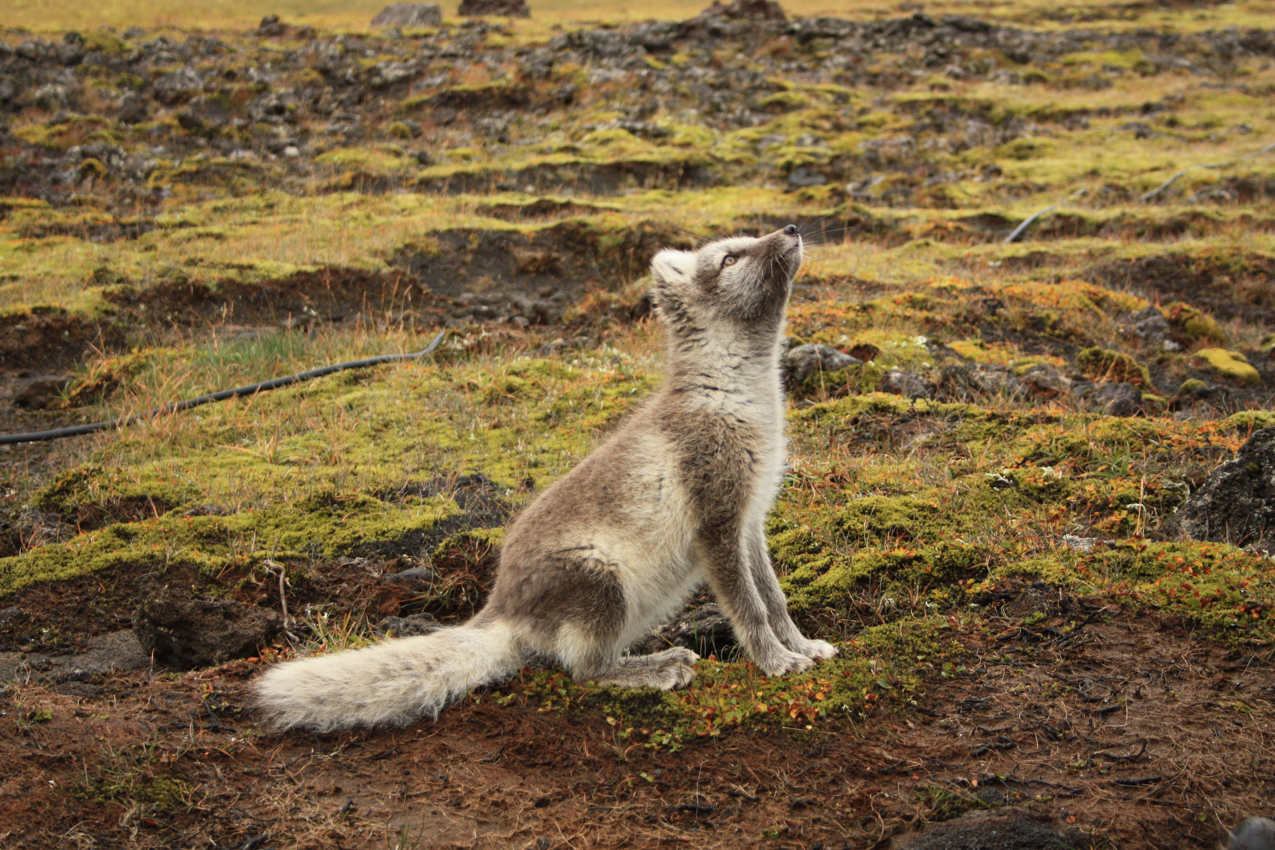 Young arctic fox near Thrihnukagigur volcano; Iceland